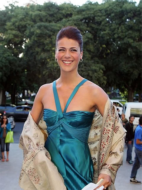 Tonka Tomicic, animadora oficial